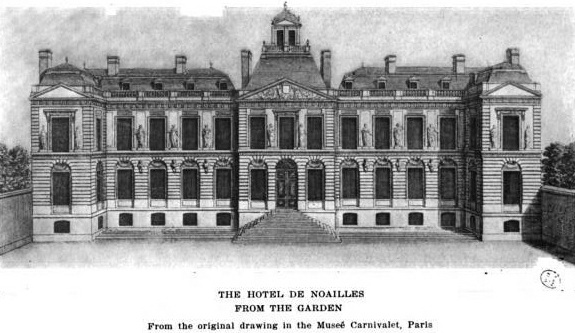 The Hôtel de Noailles from the garden. From the original drawing in the Hôtel Carnivalet [sic]. Image of the Hôtel de Noailles, Paris, France.